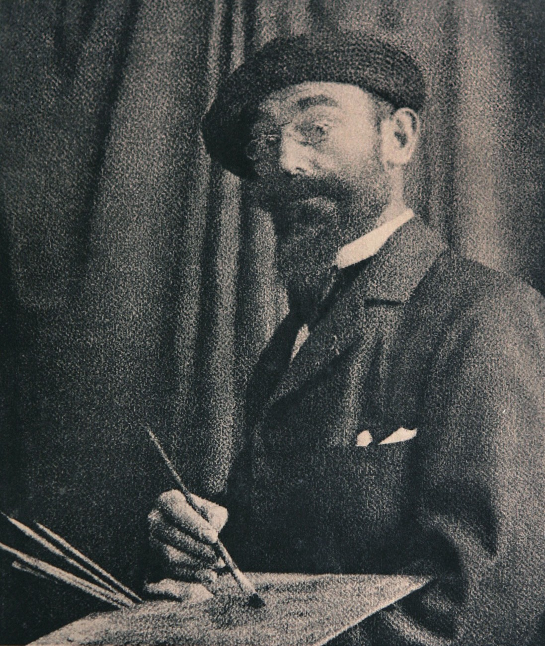 The Belgian poet and painter Théodore Hannon (Photographisches Centralblatt, 1900)